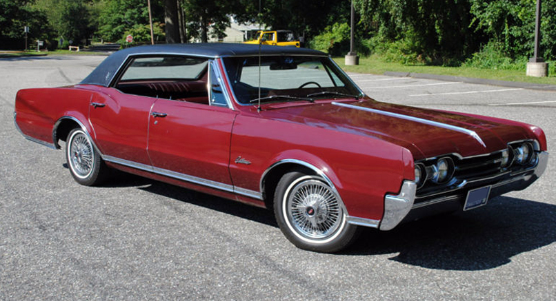 You see the Supreme coupes and 442s all the time. When is the last time you saw a four door hardtop Cutlass?